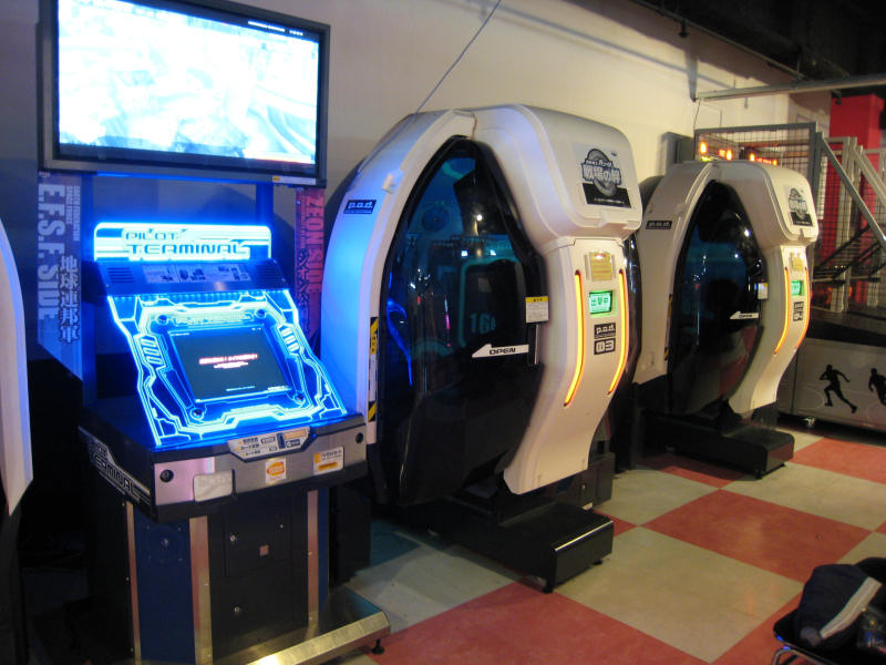 Photo of the Gundam Kizuna arcade PODs and pilot terminal, taken with Canon PowerShot SD800 IS digital camera on June 23, 2007 at A.C.T. Haijima Store. Image resized to 800x600.